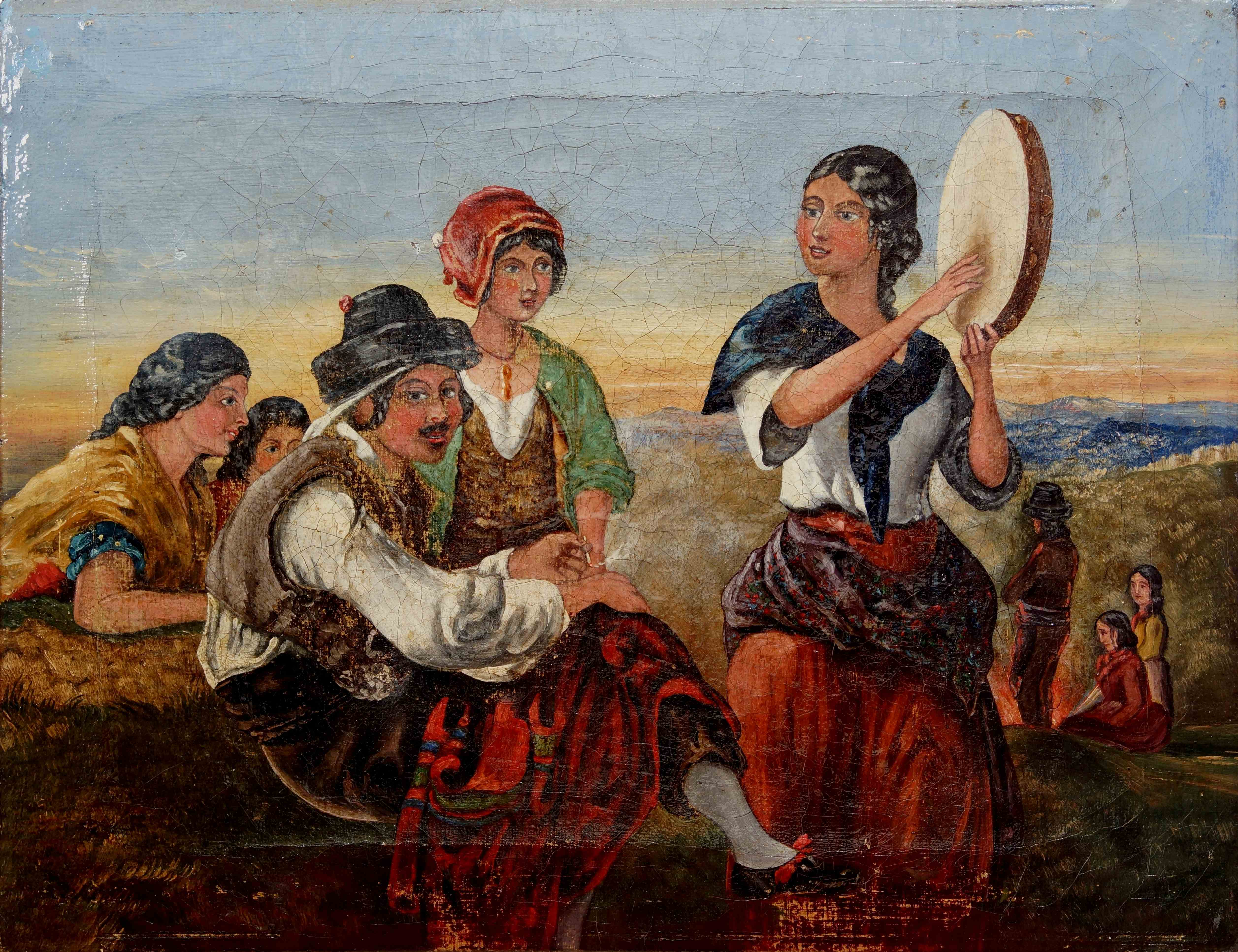 Spanish Gypsies oil on canvas 29,5 x 38,5 cm